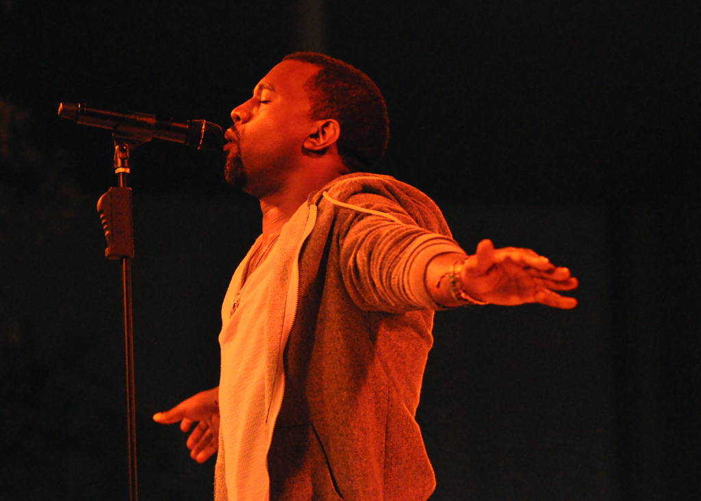 Kanye West performing at The Museum of Modern Art's annual Party